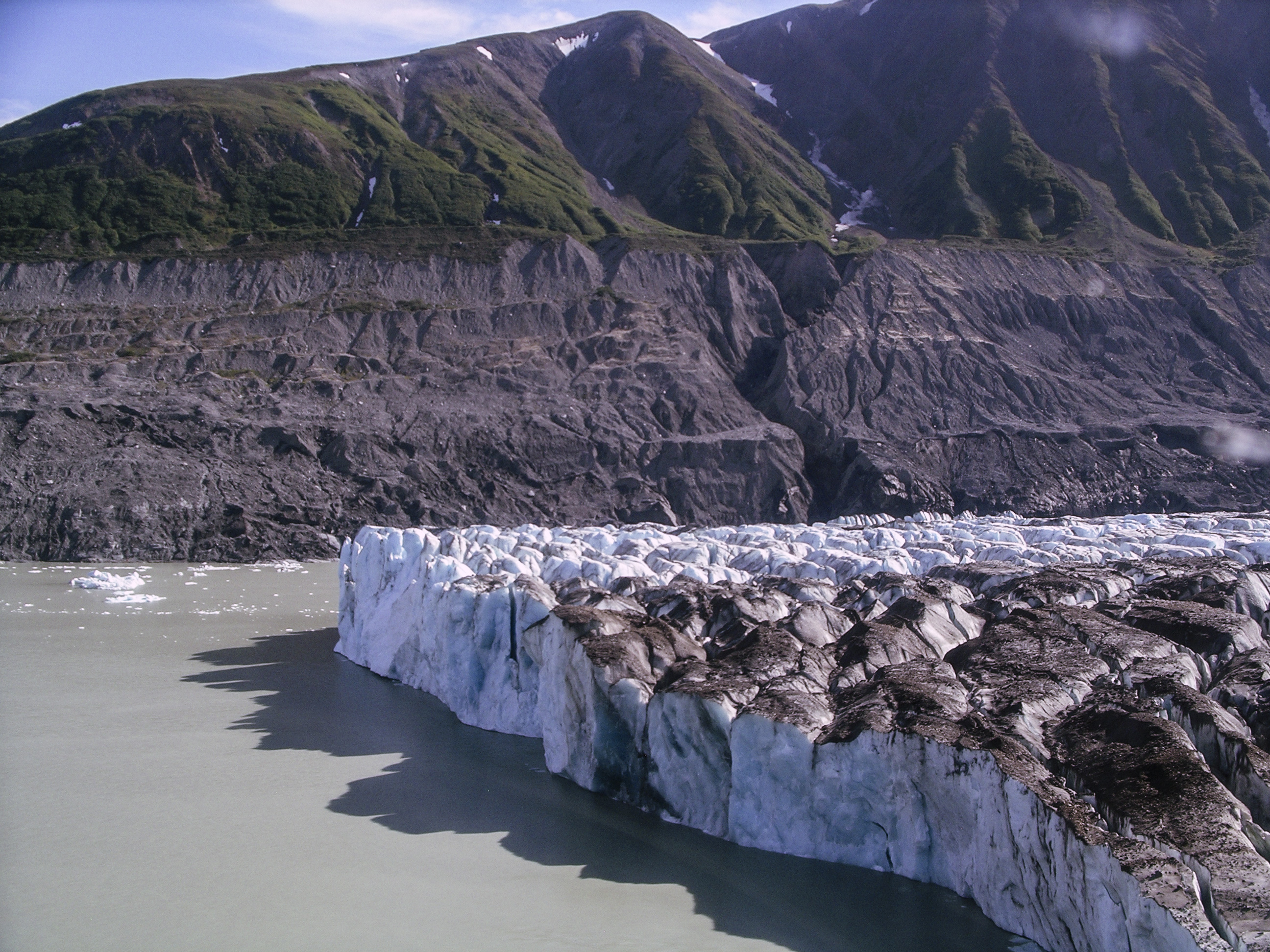 Lowell Glacier south